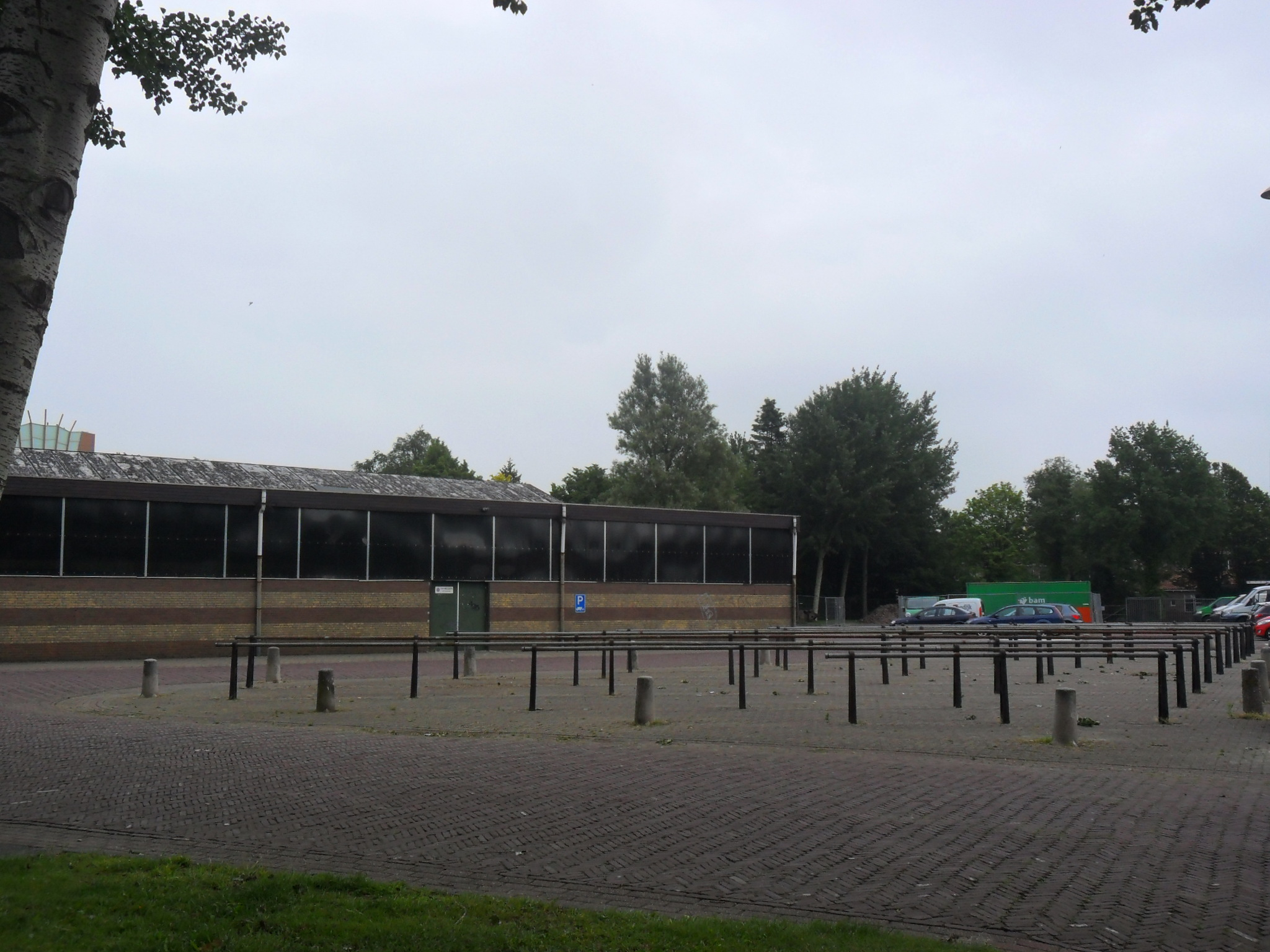 Veemarkt in Sneek